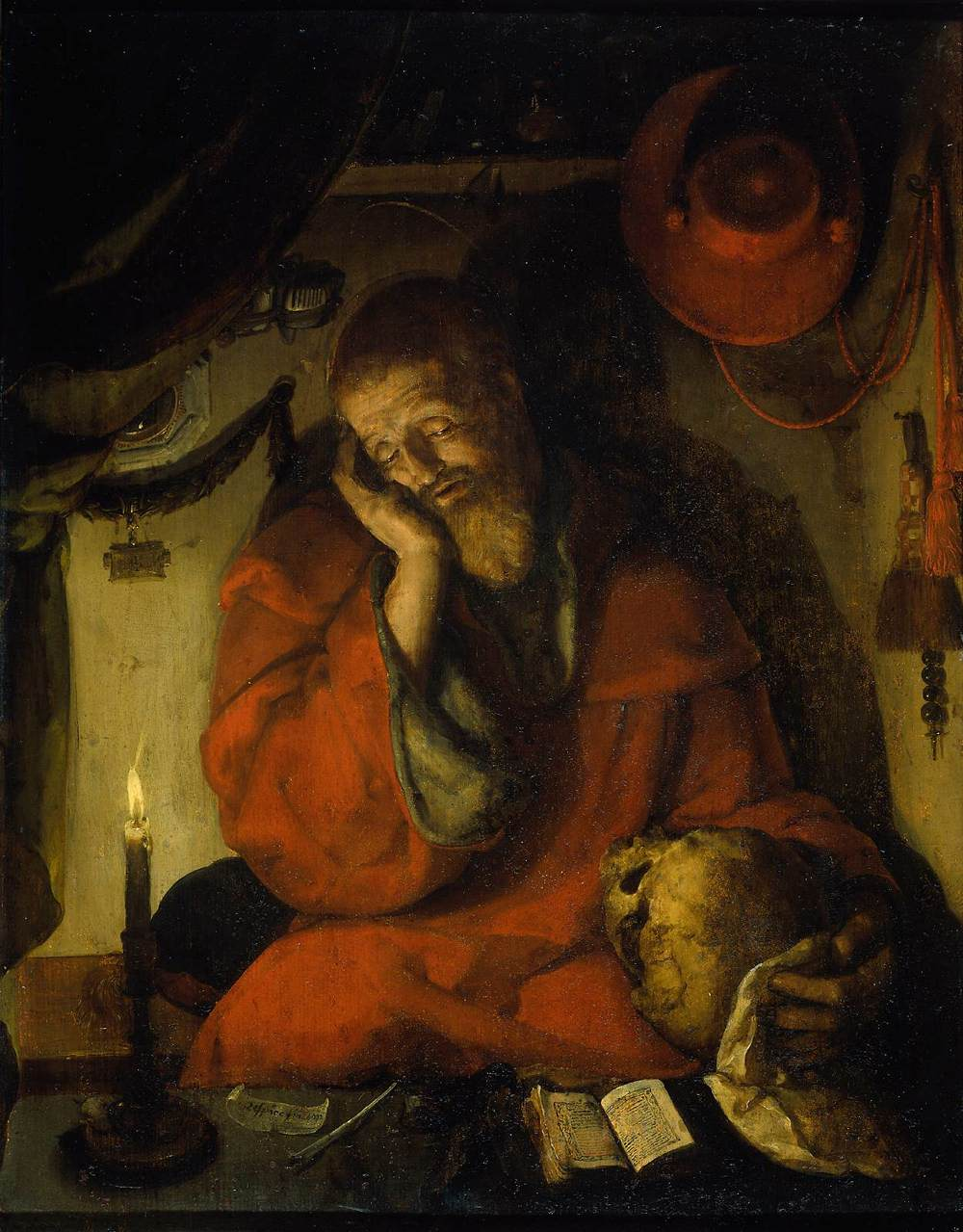 Saint Jerome in his study by candlelight. The scholar is in deep thought, staring at a scull in his left hand. On the wall behind him hang his cardinal's hat, a rosary and, to the left, a mirror. Above him a shelve with an hourglass on it. On the table in front of him are an opened book and an inkstand.